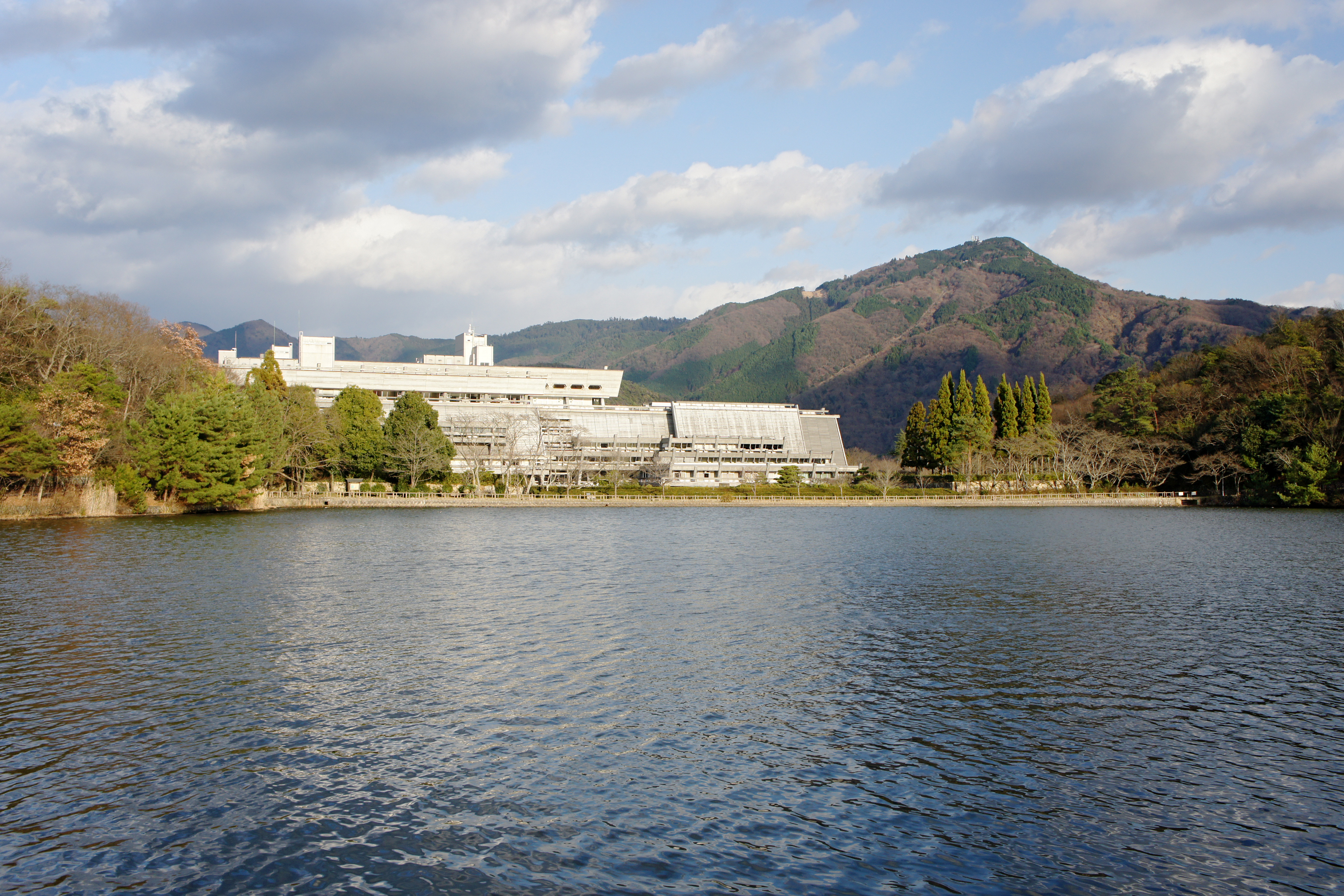 Takaragaike Park in Sakyō-ku, Kyoto, Kyoto Prefecture, Japan.